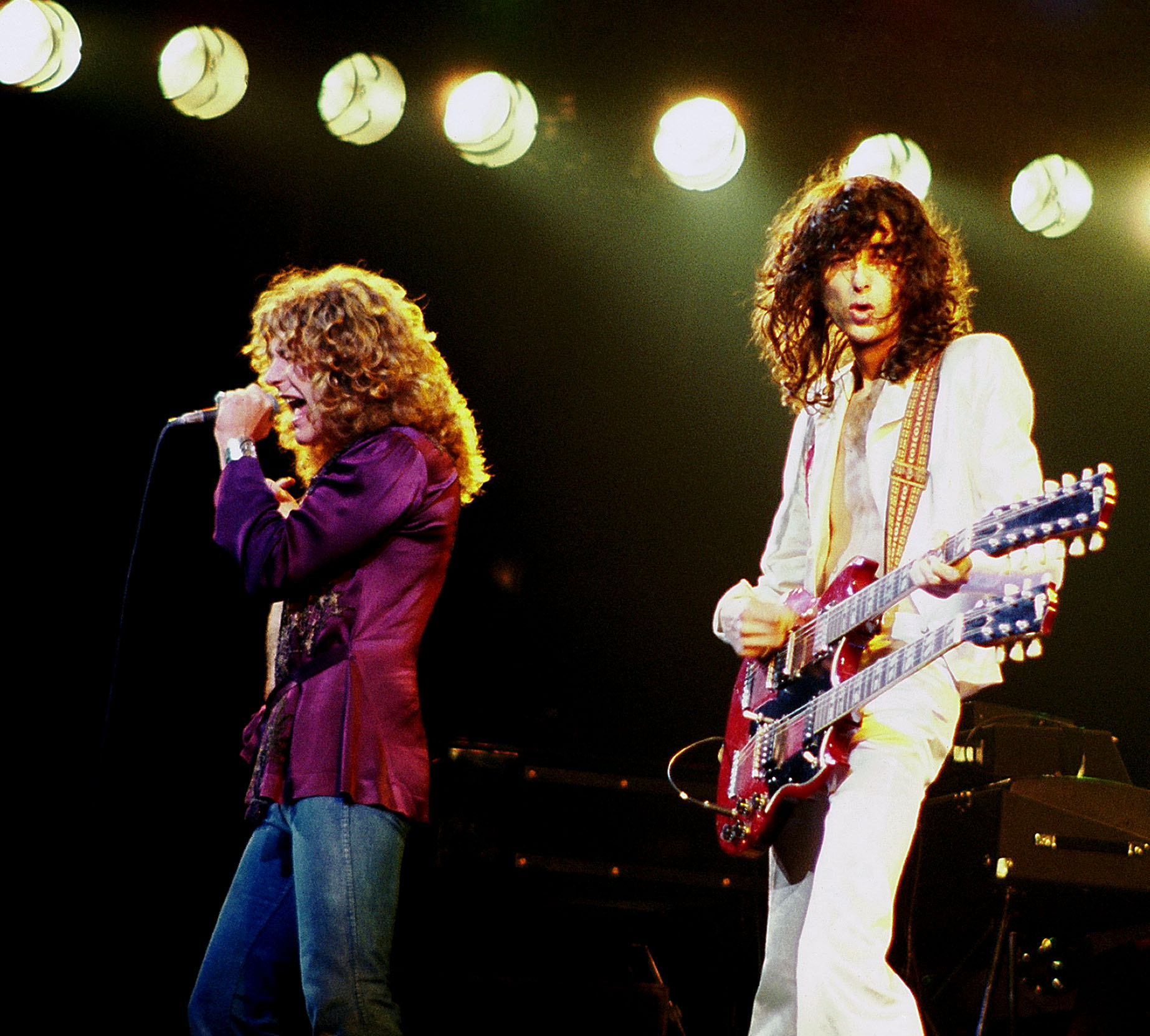 Robert Plant (left) and Jimmy Page (right) of Led Zeppelin, in concert in Chicago, Illinois